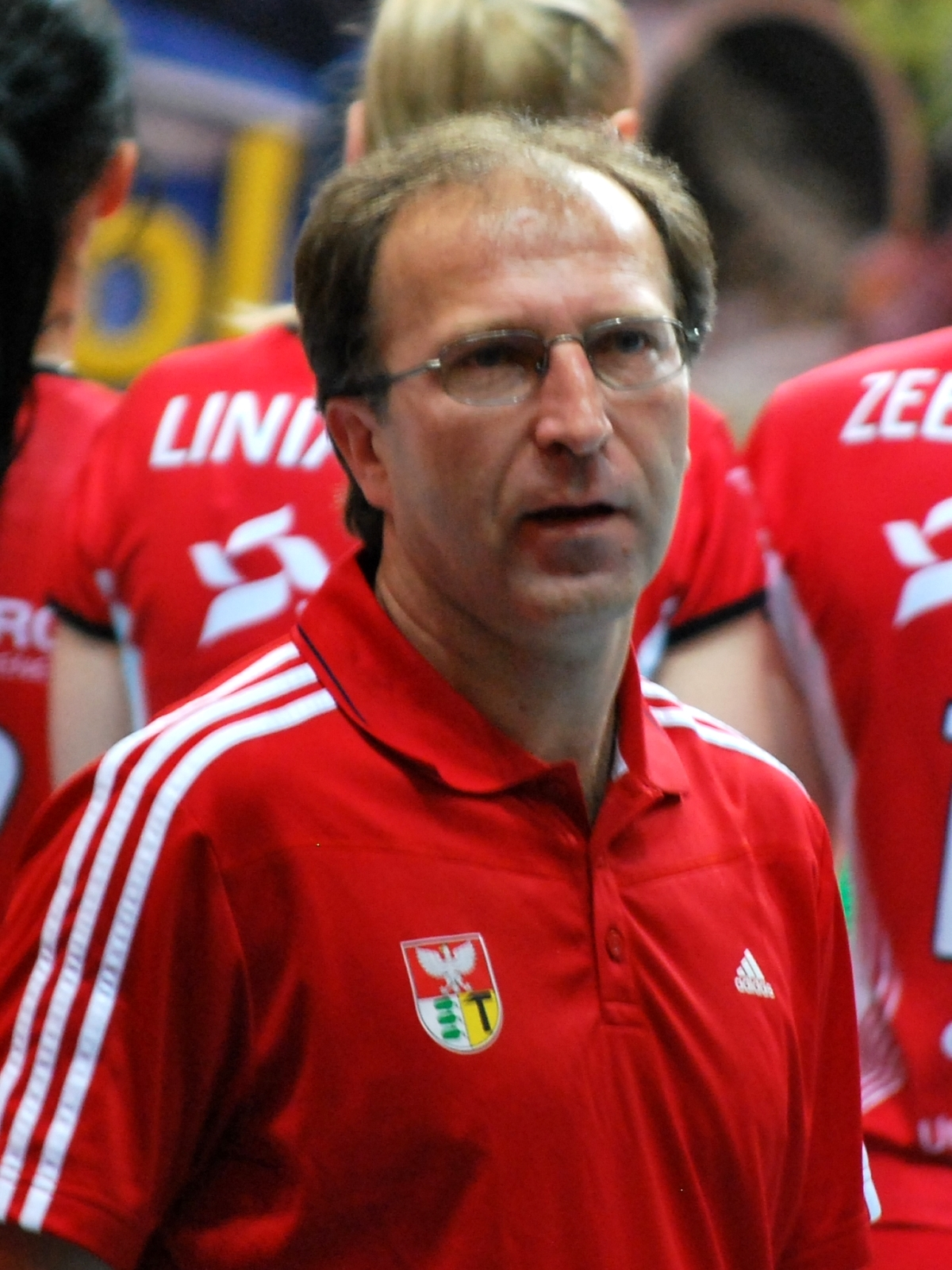 Waldemar Kawka, polish volleyball coach